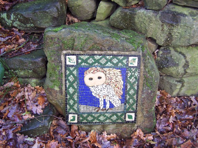 Art near Stang Brae, Dallowgill. Supplemental, I agree. The area around Dallowgill has several of these mosaics in odd places, almost like a treasure hunt. Someone with an artistic flair has gone to much trouble.